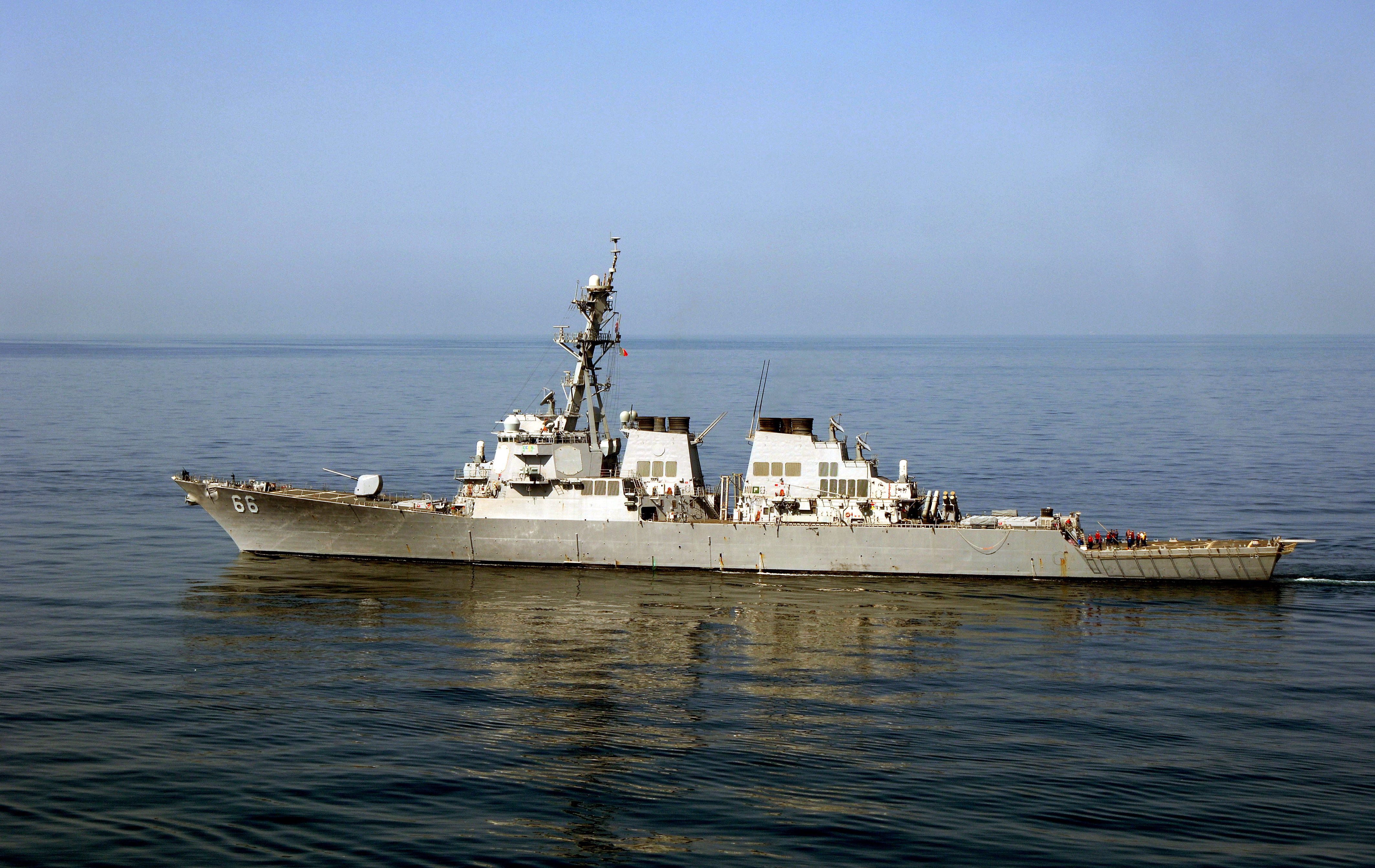 Persian Gulf (Feb. 2, 2006) - The guided-missile destroyer USS Gonzalez (DDG 66) transits through the Persian Gulf. U.S. Navy photo by Photographer's Mate 1st Class Dusan M. Ilic (RELEASED)